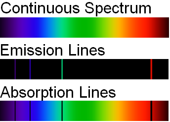 Spectral lines. Adapted from the version in Italian.